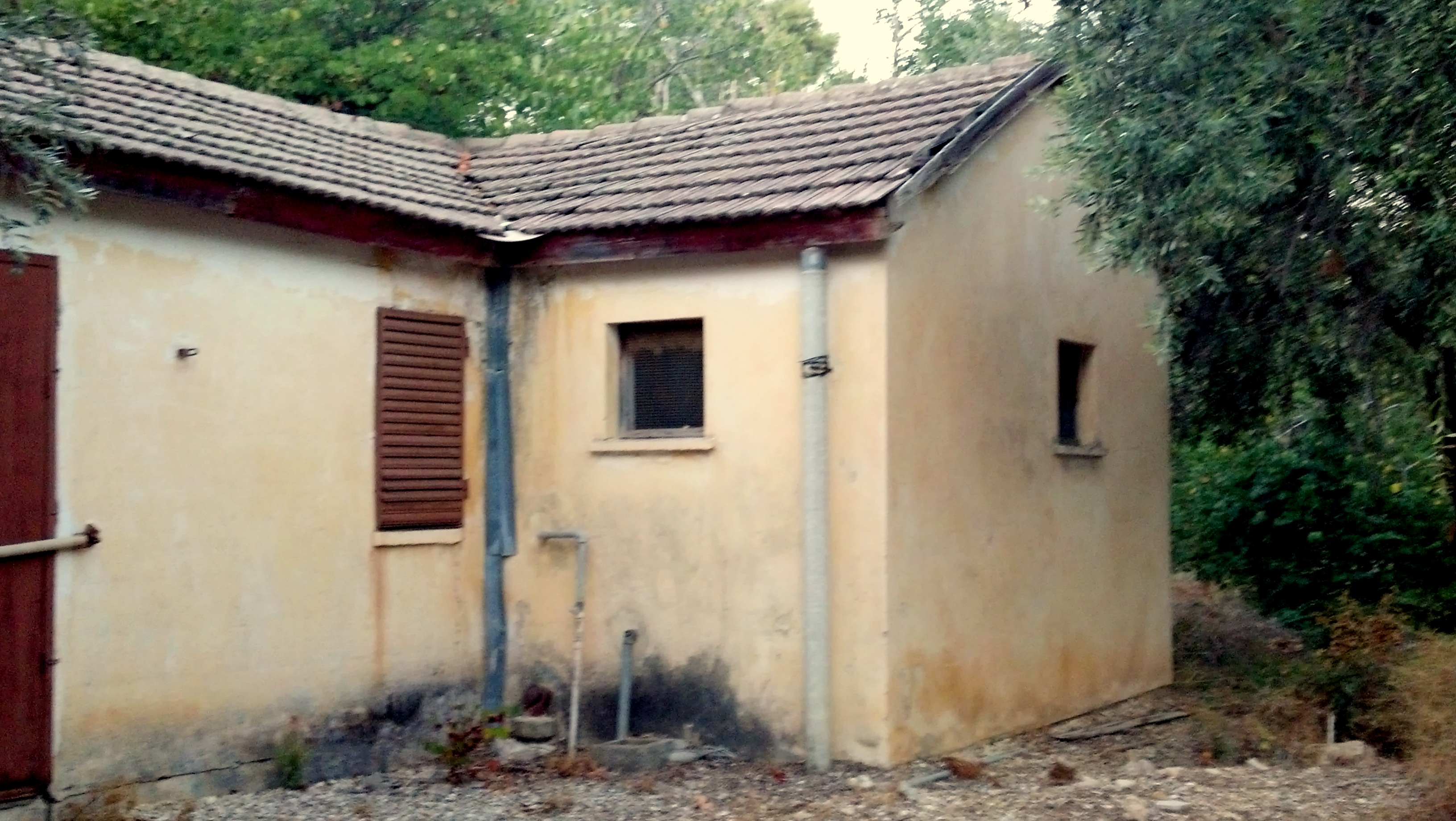 one of the first houses in Betzet' Israel, 1955